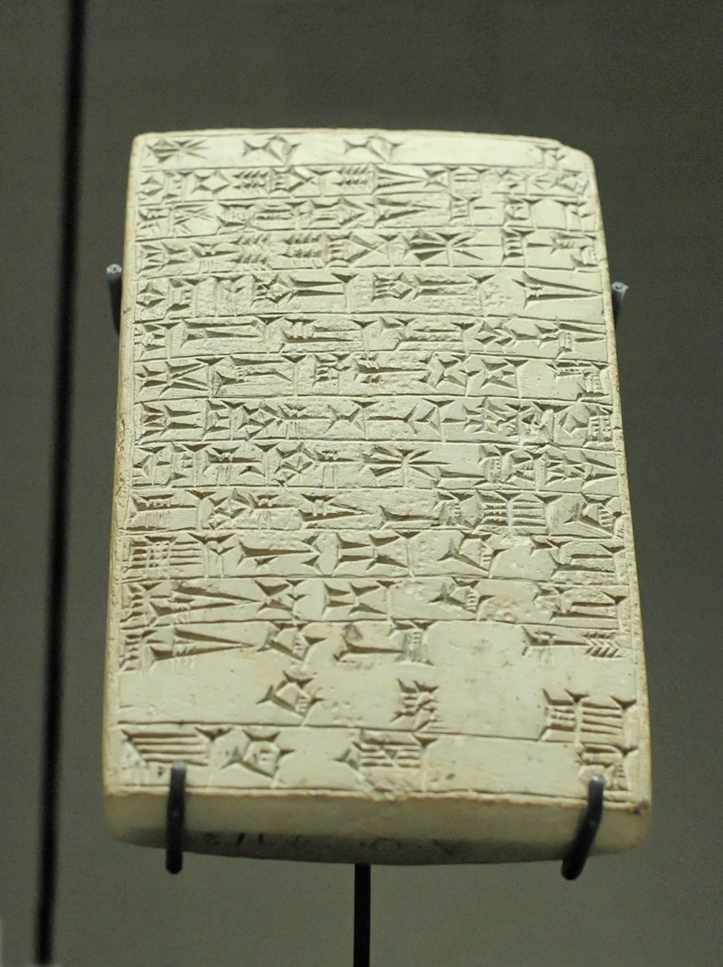 Foundation tablet of the temple of Nanaia, built by Kudur-Mabuk and Rim-Sin of Larsa. Limestone, ca. 1820 BC. (If this is limestone, it is meant for permanence; it is identical looking to the "clay tablets".